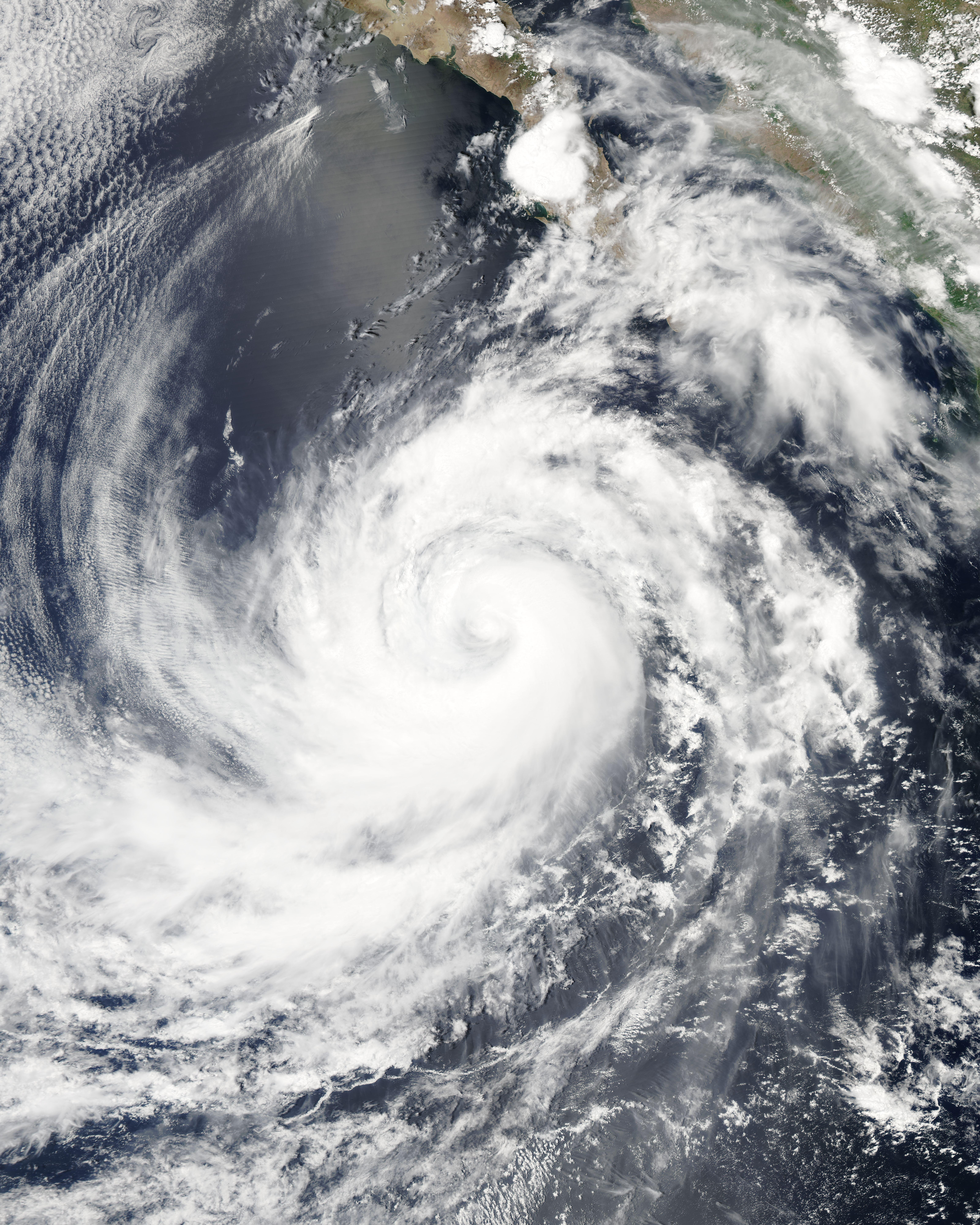 Hurricane Hilary is shown here as observed by the Moderate Resolution Imaging Spectroradiometer (MODIS) on NASA’s Aqua satellite at 1:45 p.m. local time, on August 22, 2005. Located off the coast of northern Mexico in the Pacific Ocean, the hurricane has been gathering strength and organizing into a classic spiral structure for several days. It appears here at its peak strength, with sustained winds of around 150 kilometers per hour (90 miles per hour). It is gradually moving east-northeast. The system will slowly lose strength over the next several days, and it is not expected to make landfall at any time.